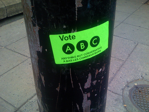 Now this is a political statement I can get behind!